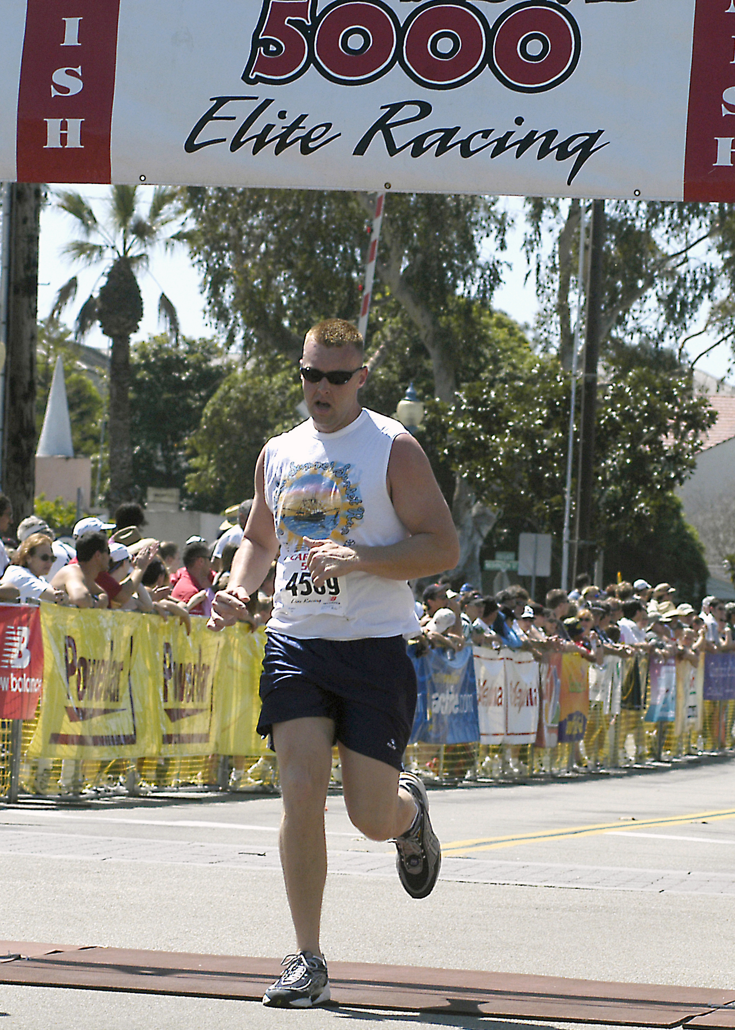 Carlsbad, Calif., (Mar. 28, 2004) – U.S. Marine Corps 1st Lt. David Cote, of Marine Medium Helicopter Training Squadron One Six Four (HMM-164), finishes the Carlsbad 5000 road race at about 25 minutes. Cote raced in the men’s 29-and-under bracket of the five-kilometer race in Carlsbad, Calif. The 19th annual race attracted more than 7,000 running enthusiasts from around the world, including several hundred Sailors, Marines and family members from San Diego, Calif. Naval Bases and Marine Corps Base Camp Pendleton. U.S. Navy photo by Photographer’s Mate 3rd Class Johansen Laurel. (RELEASED)